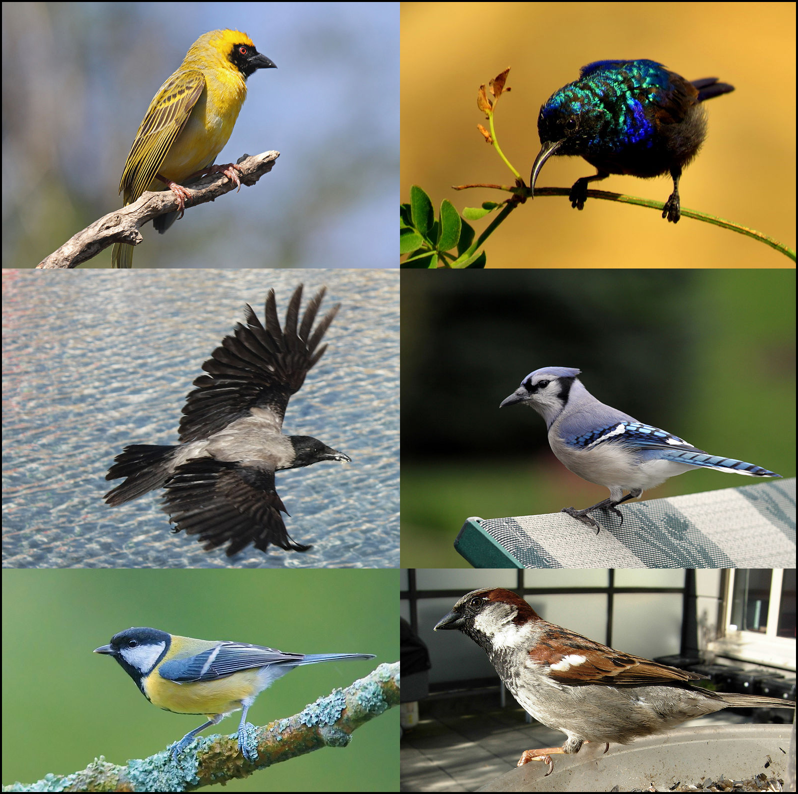 Passeriformes - passerines - ציפורי שיר